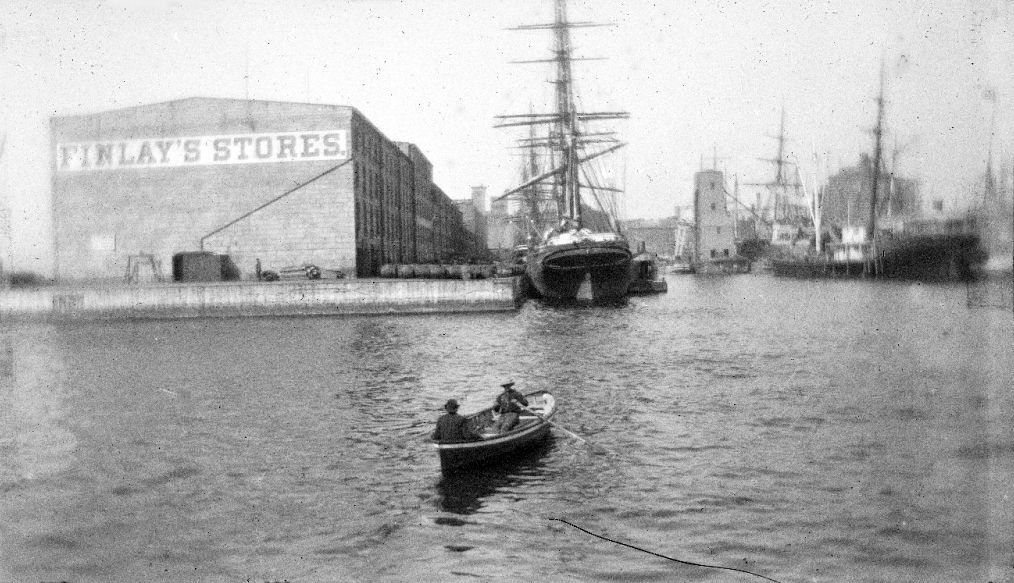 George Bradford Brainerd (American, 1845-1887). Atlantic Dock, Brooklyn, ca. 1872-1887. Wet-collodion negative. Prints, Drawings and Photographs. Brooklyn Museum/Brooklyn Public Library, Brooklyn Collection, 1996.164.2-1746. (1996.164.2-1746_glass_IMLS_SL2.jpg) Thank you, TVL1970! This image has been geotagged by TVL1970 so Brooklyn could be part of the Historypin launch on July 11, 2011. Want to help? See if you can place any of these images on a map! More about #mapBK